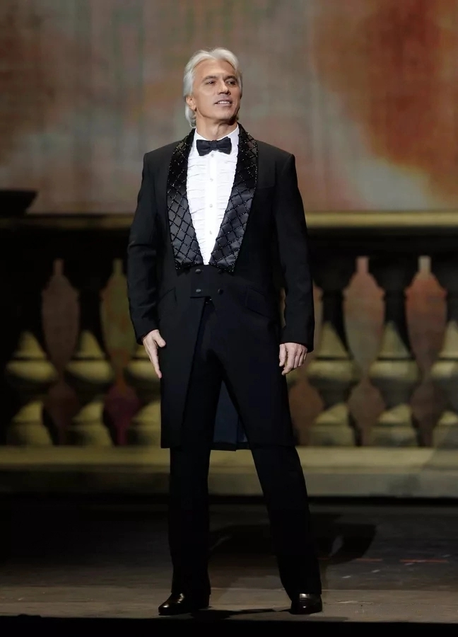 Dmitry Hvorostovsky (1962–2017, a Russian operatic baritone) singing aria from Queen of Spades during reopening gala of the Bolshoi in Moscow on 28 October 2011.